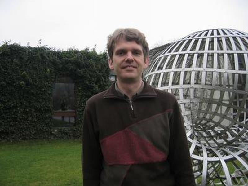 Andreas Gathmann, Oberwolfach 2007